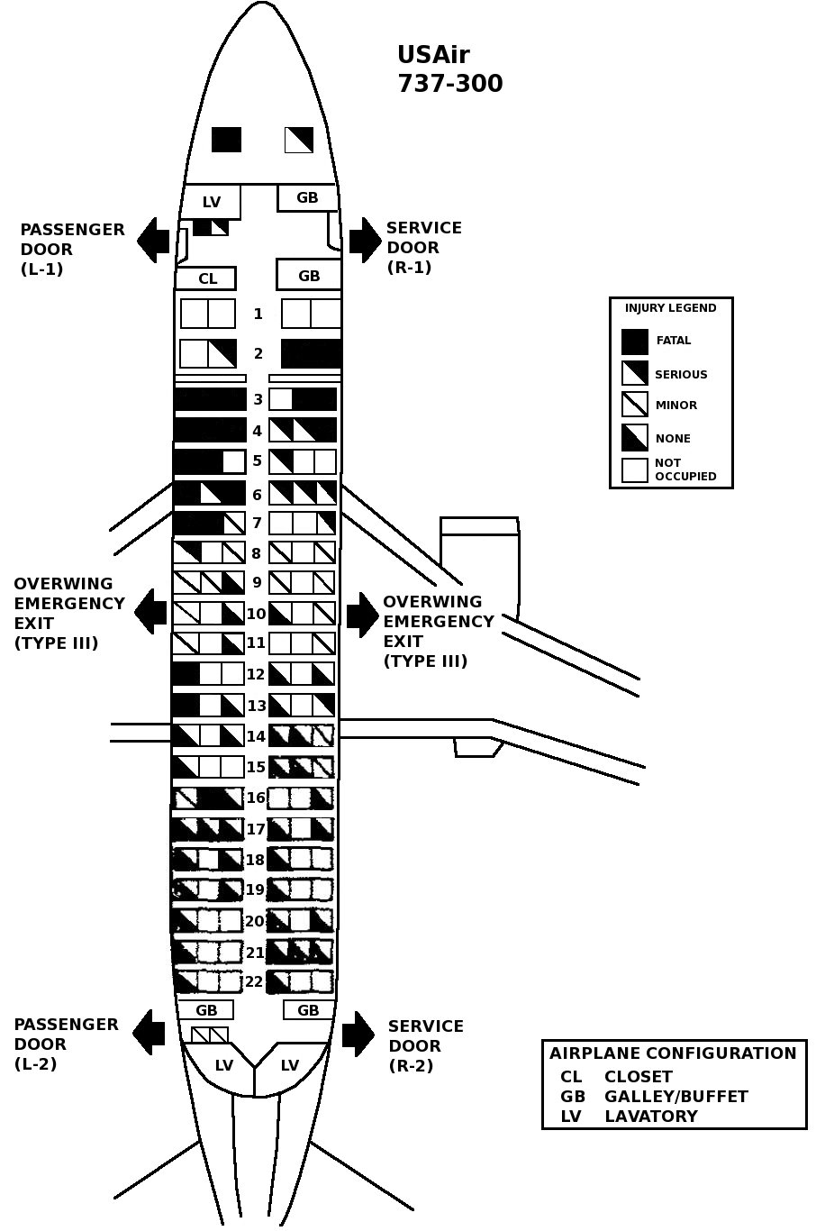 From NTSB report of US Air 1493 - Page 43 of 168